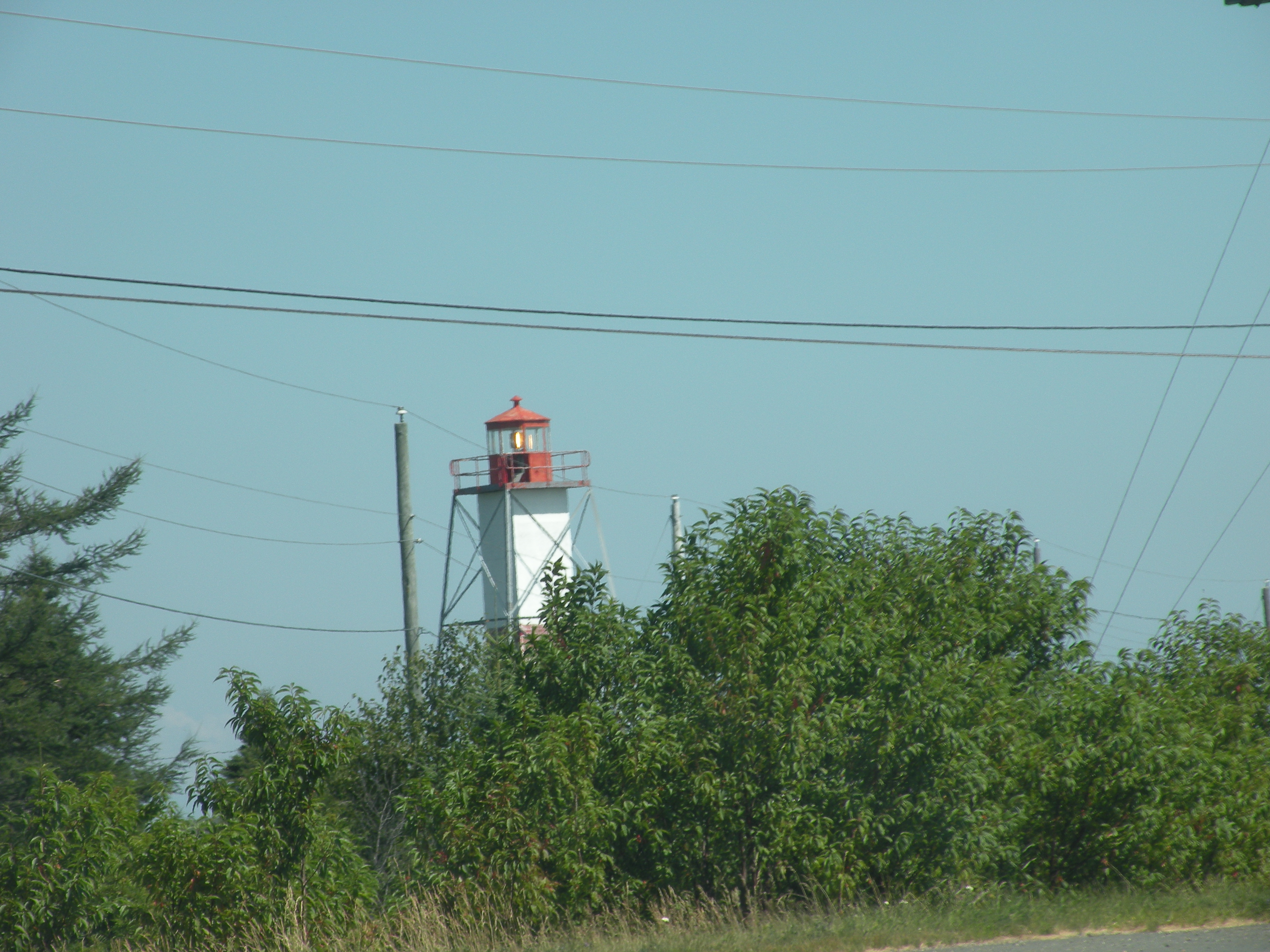 Lightouse in Saint-Cécile, New Brunswick, Canada.